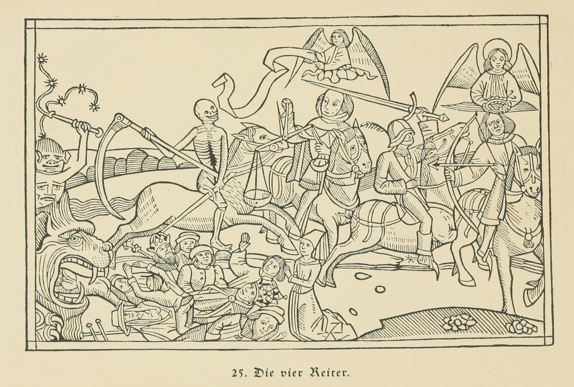 Woodcut from the Cologne Bible of 1479 representing the Four Horsemen of the Apocalypse.